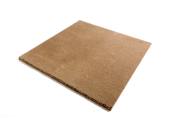 ArgillaTherm Clay Panel or Clay Board